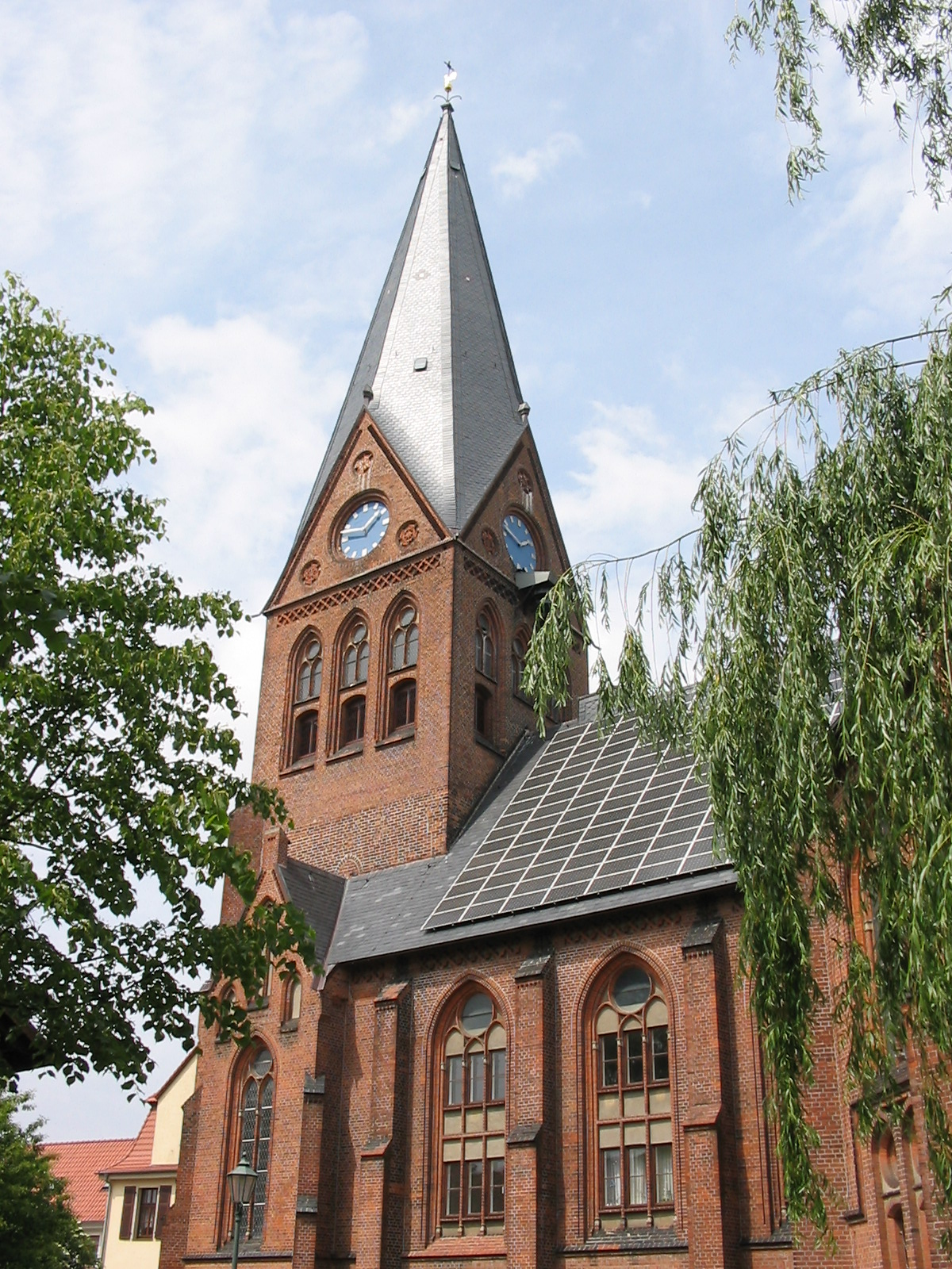 Lutheran church in Hagenow, disctrict Ludwigslust, Mecklenburg-Vorpommern, Germany